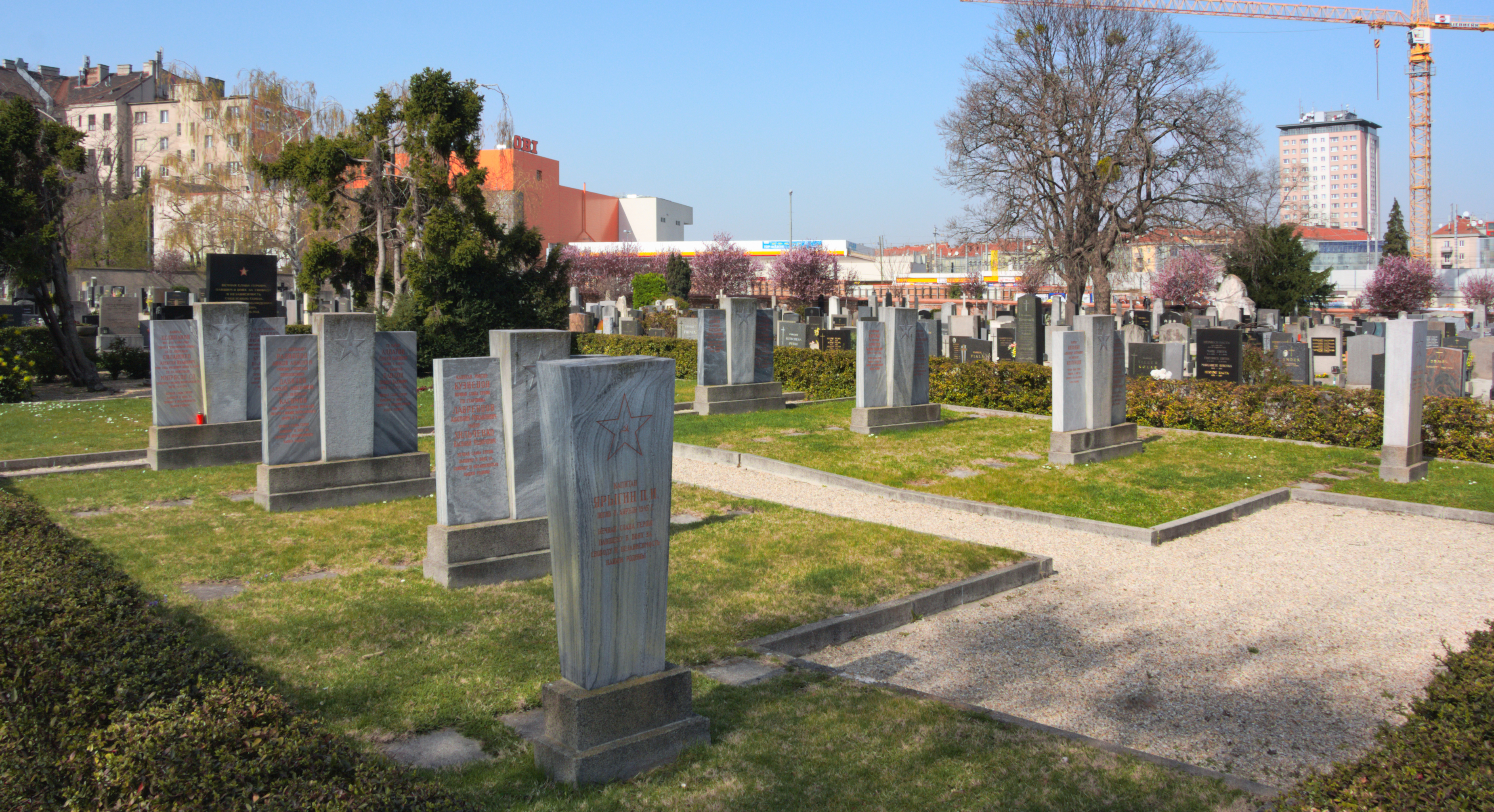 The cemetry for the fallen russian soldiers of the second world war on the cemetery Matzleinsdorf in Vienna, Austria